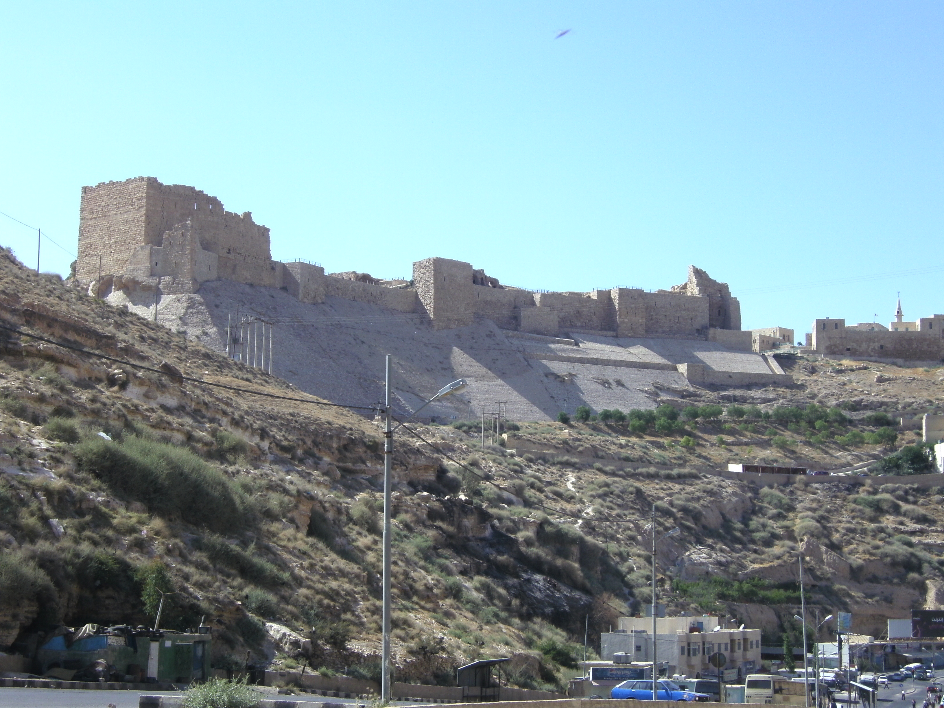 Kerak Castle is a large crusader castle located in Kerak in Jordan. It is one of the largest crusader castles in the Levant. Construction of the castle began in the 1140s, under Pagan, Fulk of Jerusalem's butler. The Crusaders called it Crac des Moabites or "Karak in Moab", as it is frequently referred to in history books.